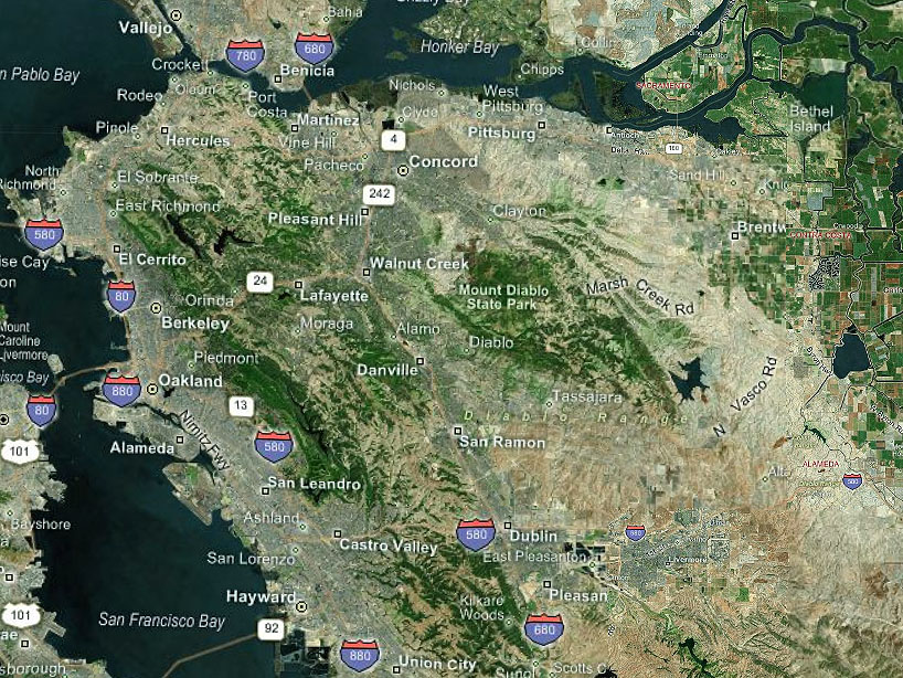 Map of the East Bay - color-coded